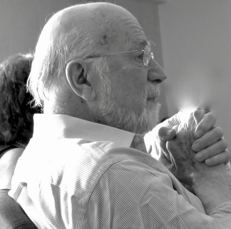 American philosopher Stanley Cavell in Paris, 2015